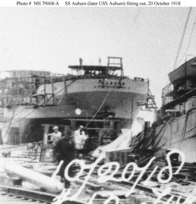 SS Auburn (American Freighter, 1918) Fitting out at the Chester Shipbuilding Company shipyard, Chester, Pennsylvania, 20 October 1918. This ship briefly served as USS Auburn (ID # 3842) in 1919.